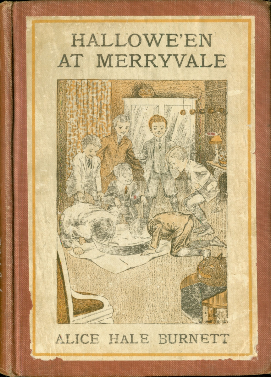 Book cover from children;s novel, Hallowe'en at Merryvale by Alice Hale Burnett.